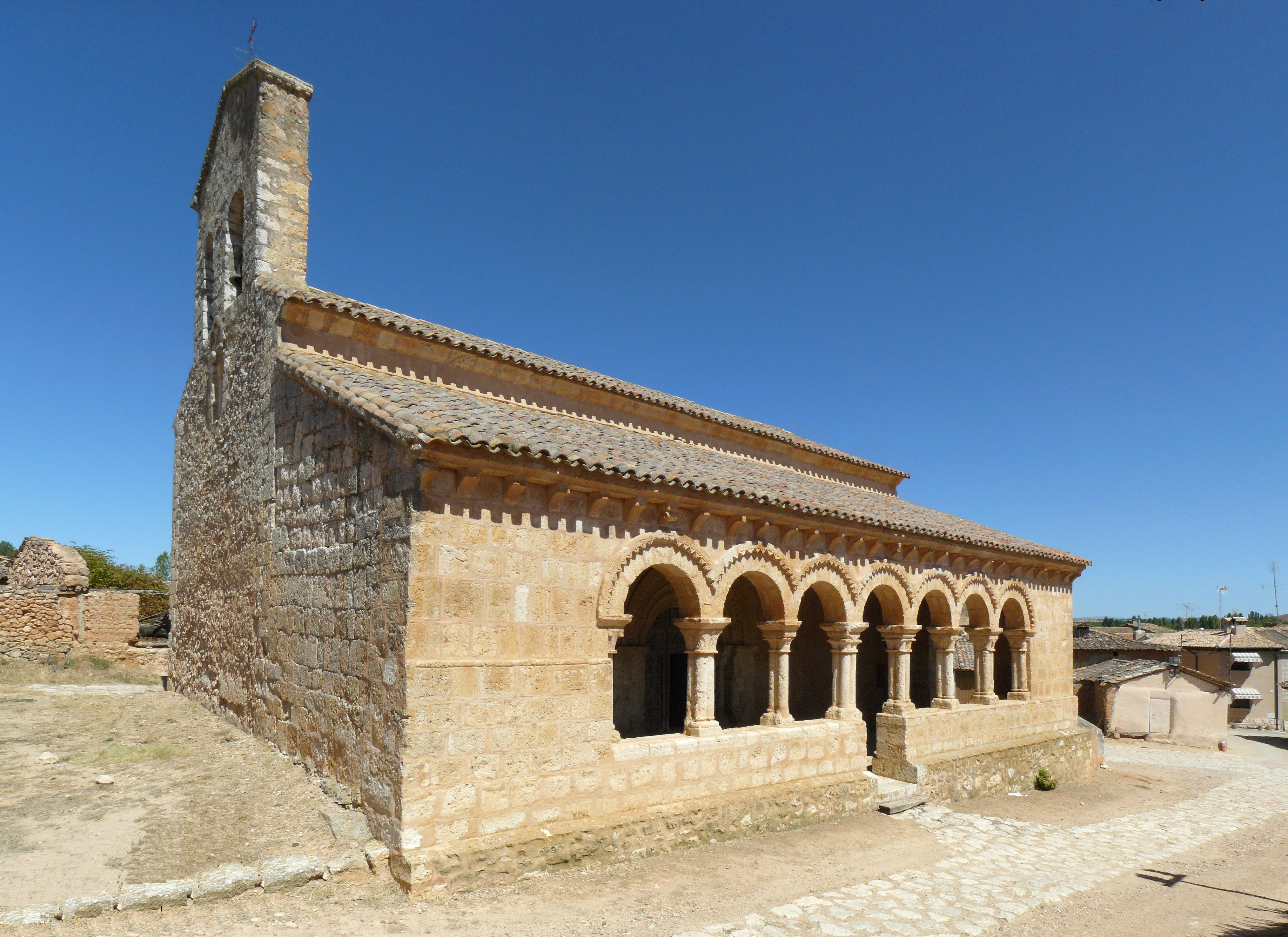 Church of San Martín, Rejas de San Esteban, Soria (Spain), as seen from the South.